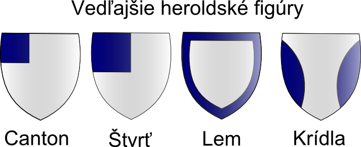 Some of subordinaries used in heraldry, descripted in slovak.